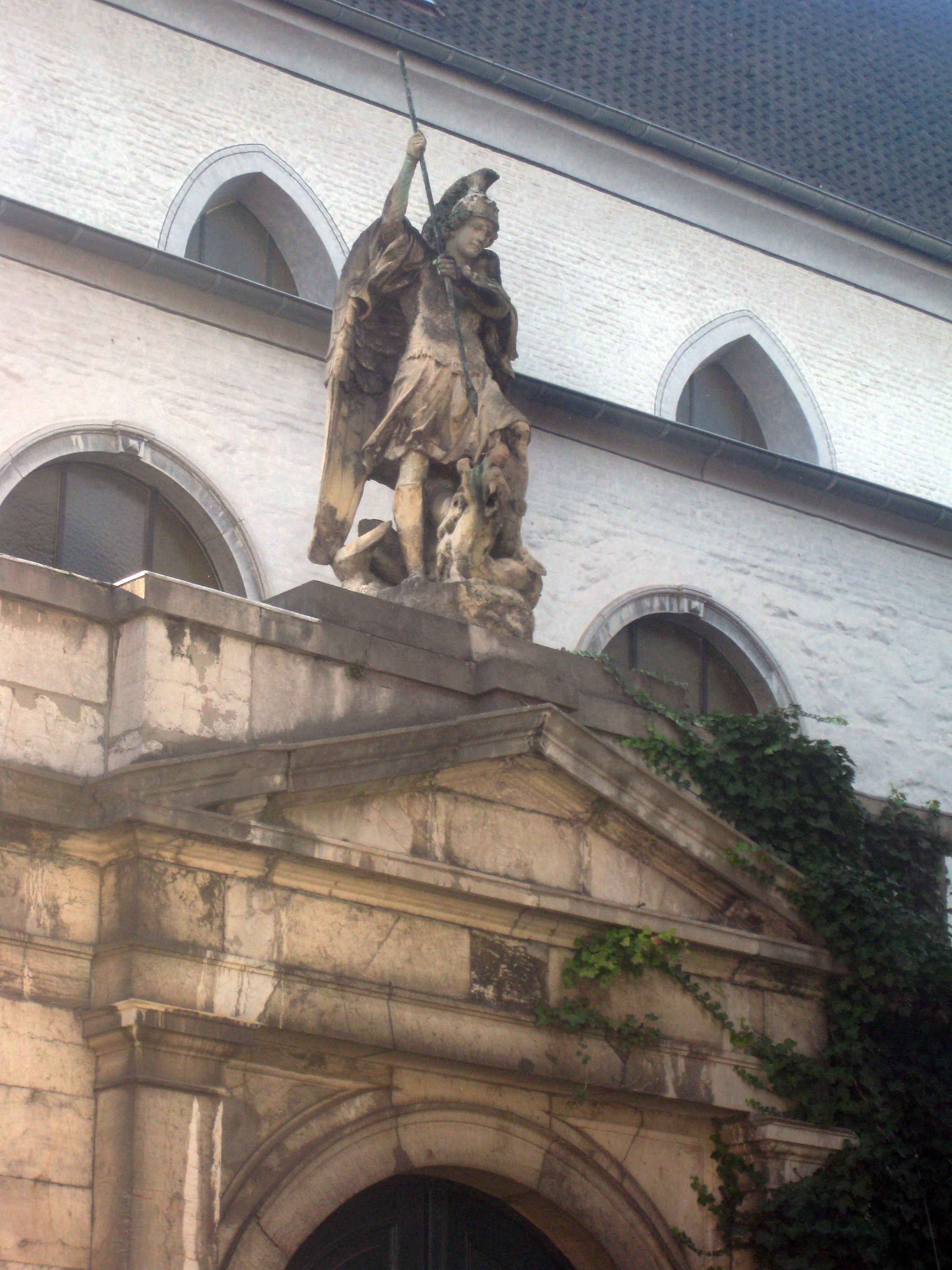 The church St.Michael & St. Dimitrios in Aachen